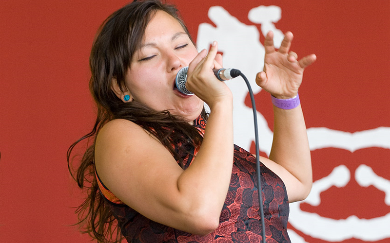 Tagaq at the Edmonton Folk Music Festival in August 2007